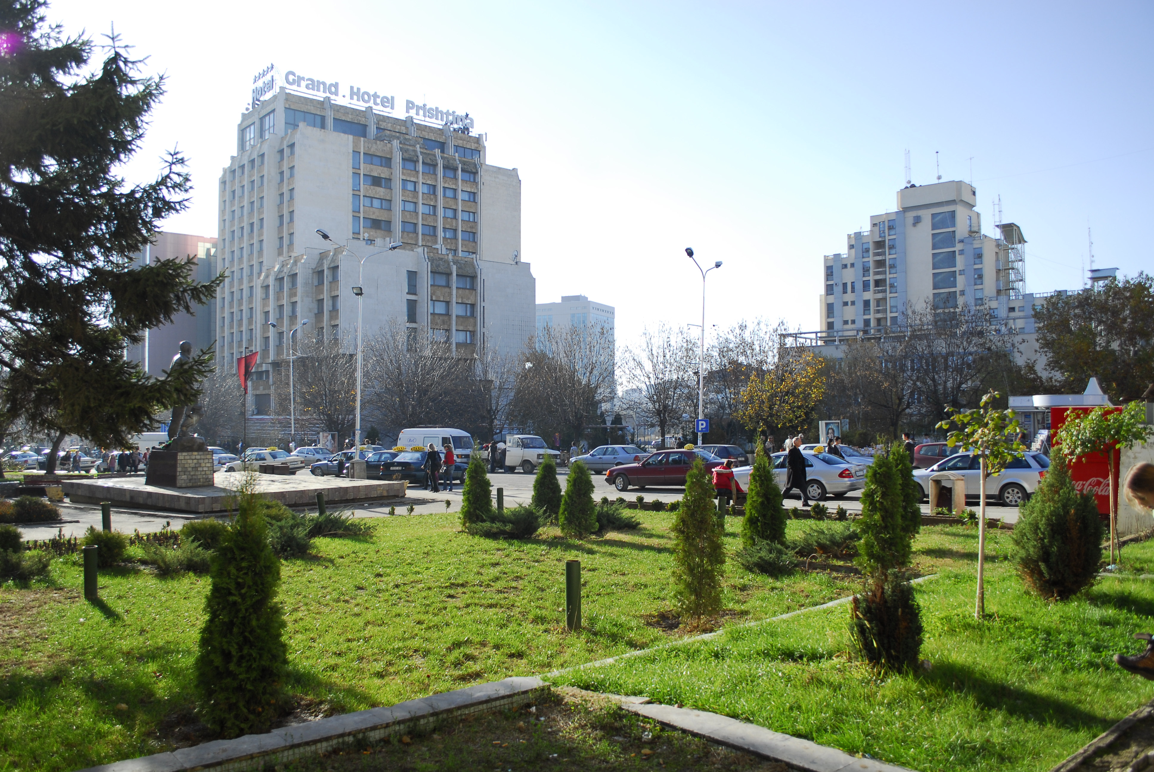 A view of the city center, Grand Hotel, and the nearby small park, Prishtina, Kosovo.